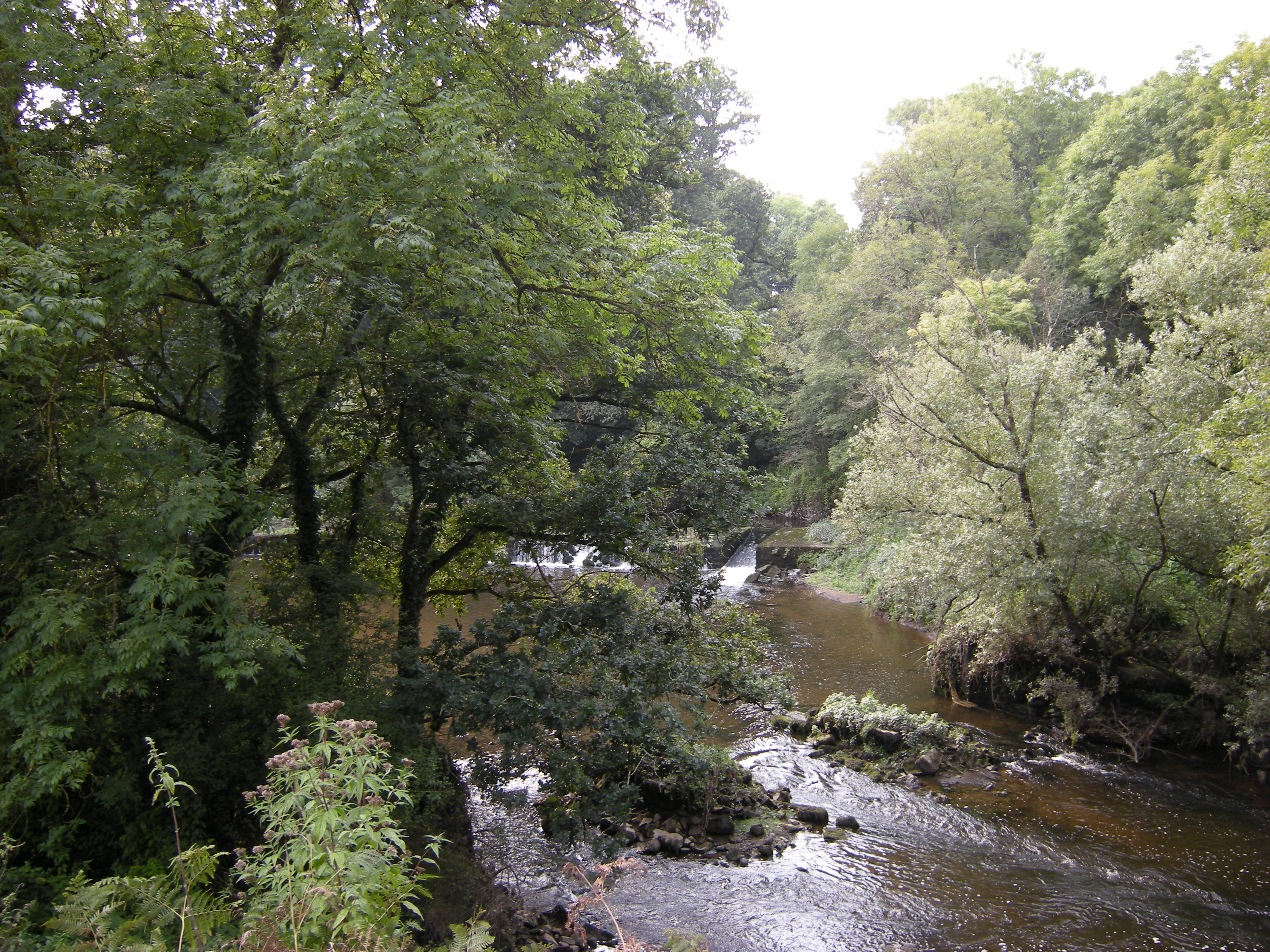 Leff river, in Quemper-Guézennec, Britanny, Côtes-d'Armor, France